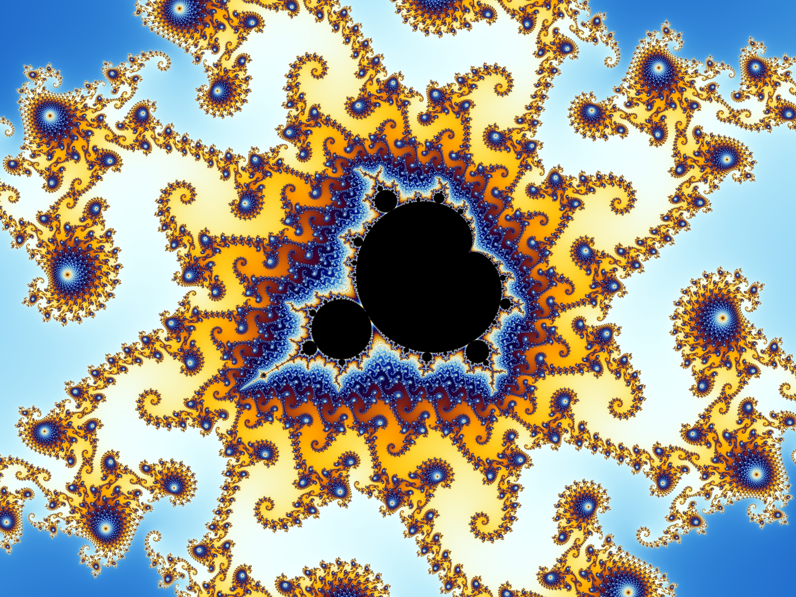 Partial view of the Mandelbrot set. Step 7 of a zoom sequence: Each of this crowns consists of similar "seahorse tails". Their number increases with powers of 2, a typical phenomenon in the environment of satellites. The unique path to the spiral center mentioned in zoom step 5 passes the satellite from the groove of the cardioid to the top of the "antenna" on the "head". Also observe that the starting view is located in the center. Coordinates of the center: Re(c) = -.743,643,135, Im(c) = .131,825,963 Horizontal diameter of the image: .000,014,628 Magnification relative to the initial image: 210,350 Created by Wolfgang Beyer with the program Ultra Fractal 3. Uploaded by the creator.